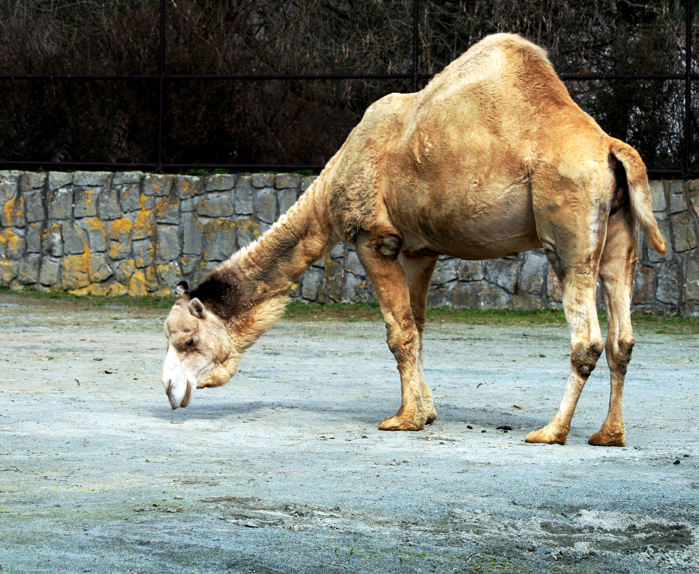 Dromedary, Camelus dromedarius in ZOO Dvůr Králové, Czech Republic Česky: Velbloud jednohrbý Camelus dromedarius zoo Dvůr Králové nad Labem, východní Čechy